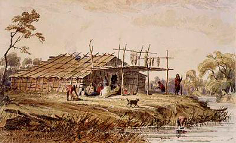 Summerhouse of Wahpeton.